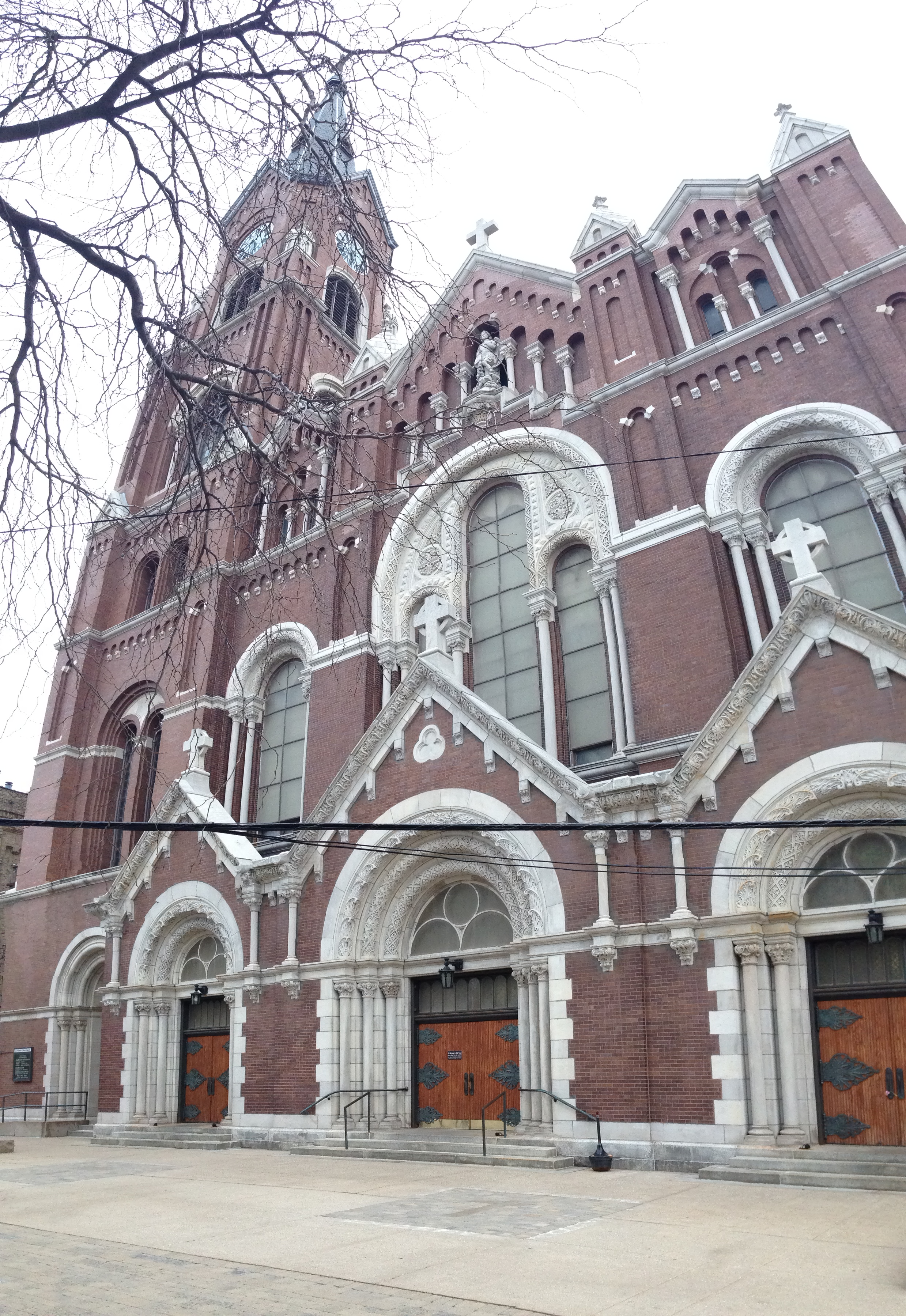 St. Michaels Church, Chicago, cleaned in 2014